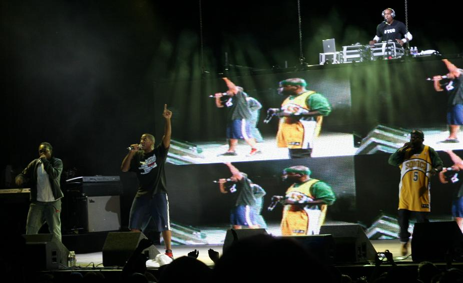 Members of the hip hop group A Tribe Called Quest performing a concert in 2008 in front of a large video monitor